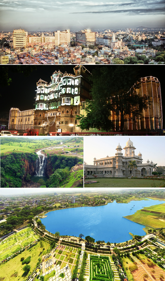 Indore, the largest city of central India. Clockwise from top: 1) Skyline of Mangal City (Vijay Nagar) 2) Rajwada Palace 3) Daly College 4) Atal Bihari Vajpayee Regional Park aerial view 5) Patalpani Waterfalls